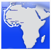 Main One (cable system) showing the plan for phase one of the project.